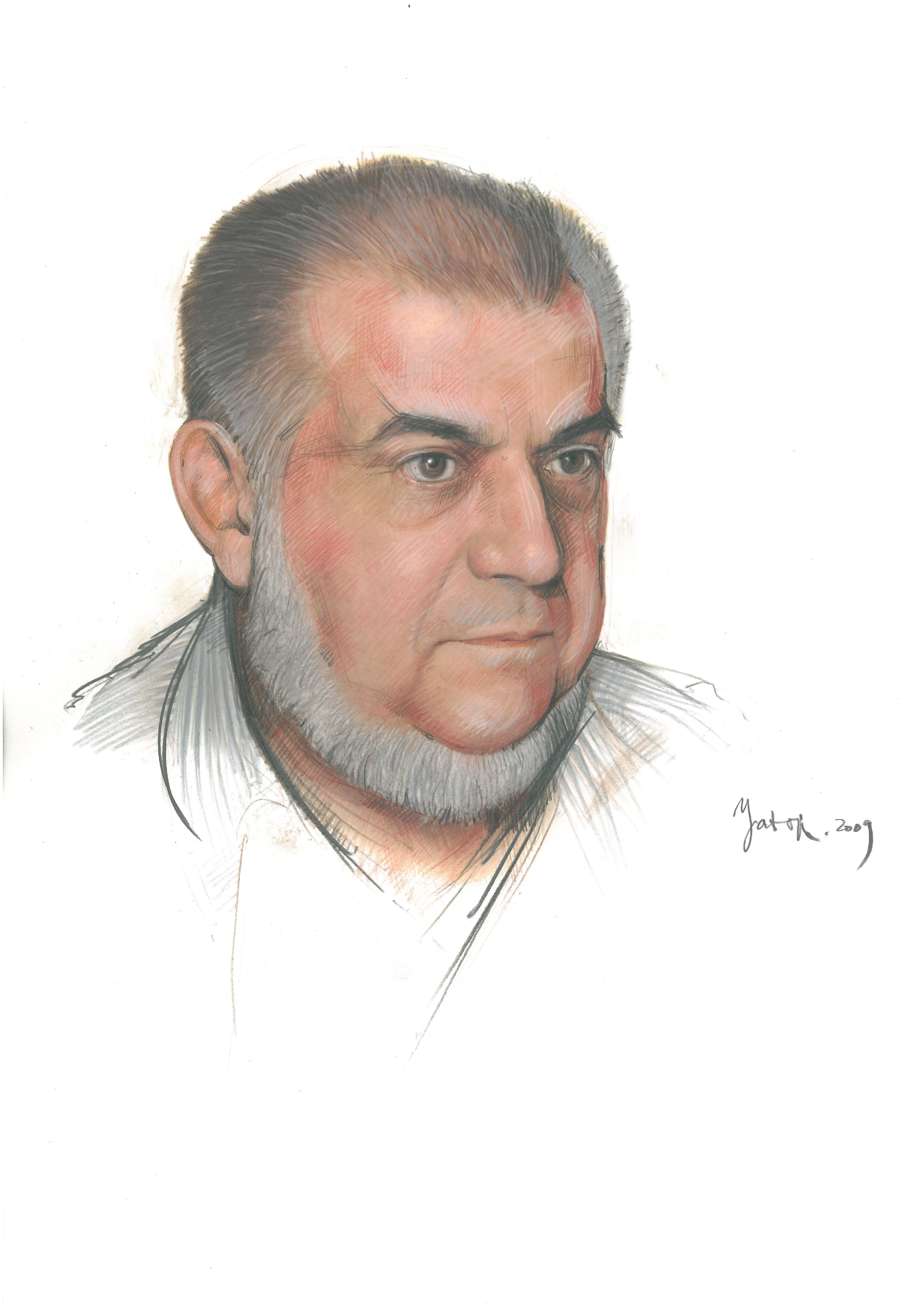 Srba Ignjatović, Serbian writer and critic, color drawing of Javor Rašajski. Српски (ћирилица): Срба Игњатовић, цртеж у боји Јавора Рашајског